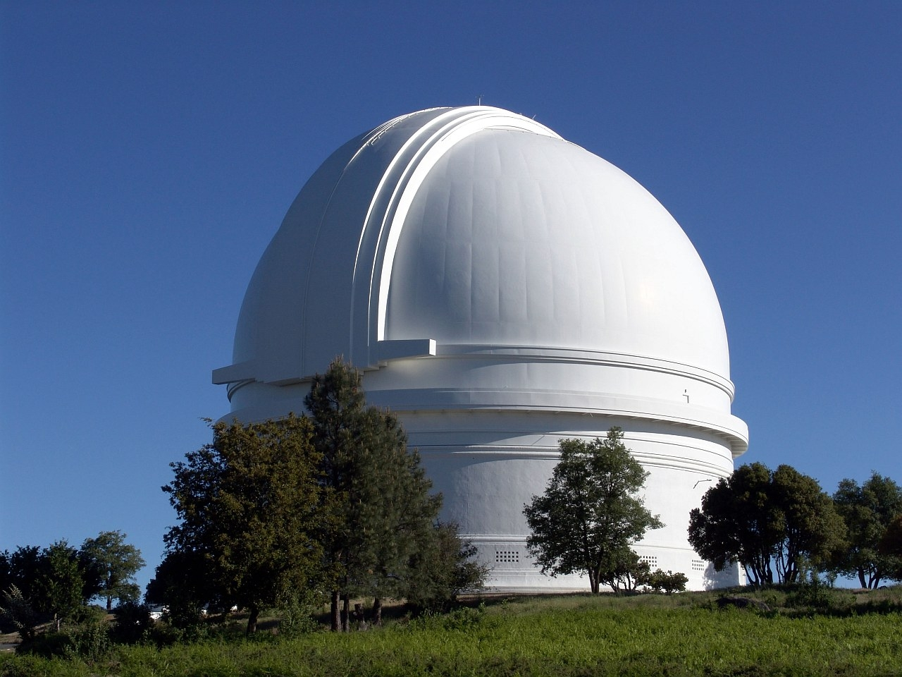 Palomar 2006, summer of Cyrrus Oyster - best friend allowance